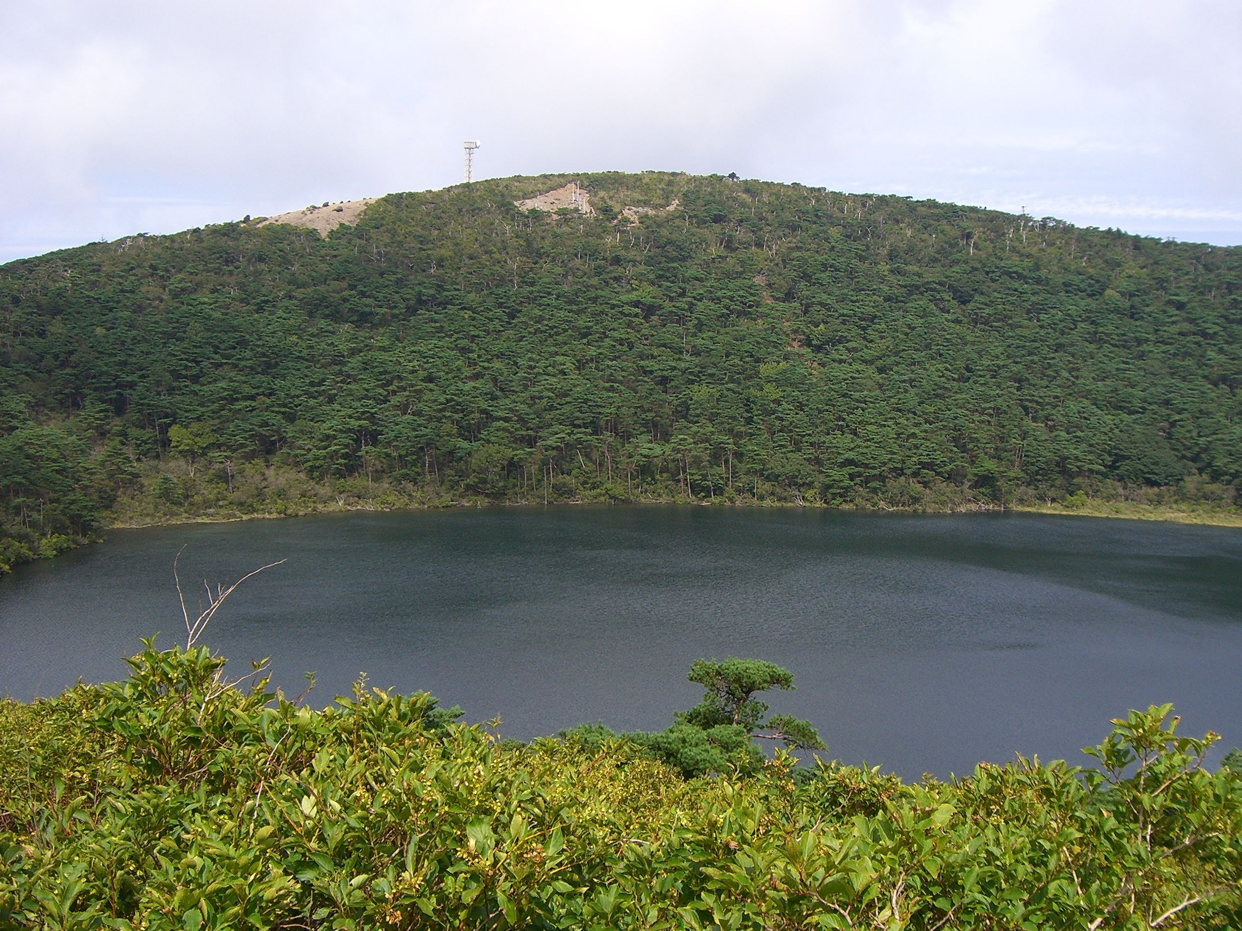 Mt. Shiratoriyama and Lake Byakushiike in Miyazaki, Japan